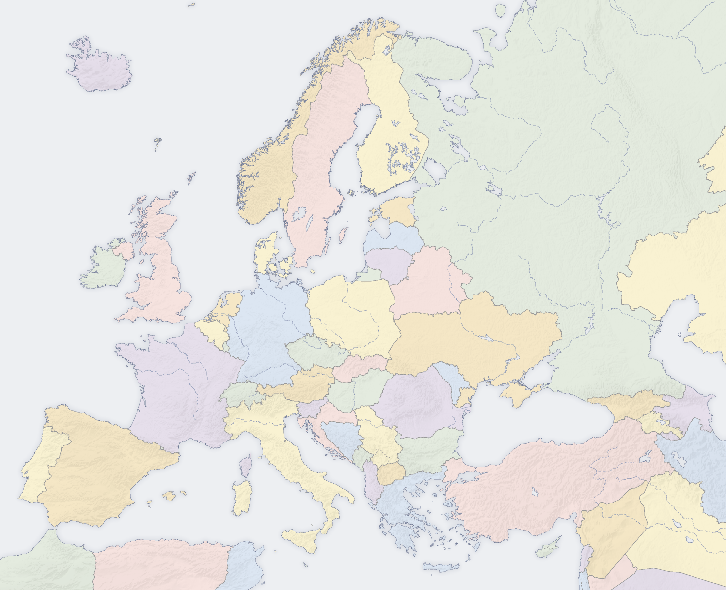 Map of countries in Europe